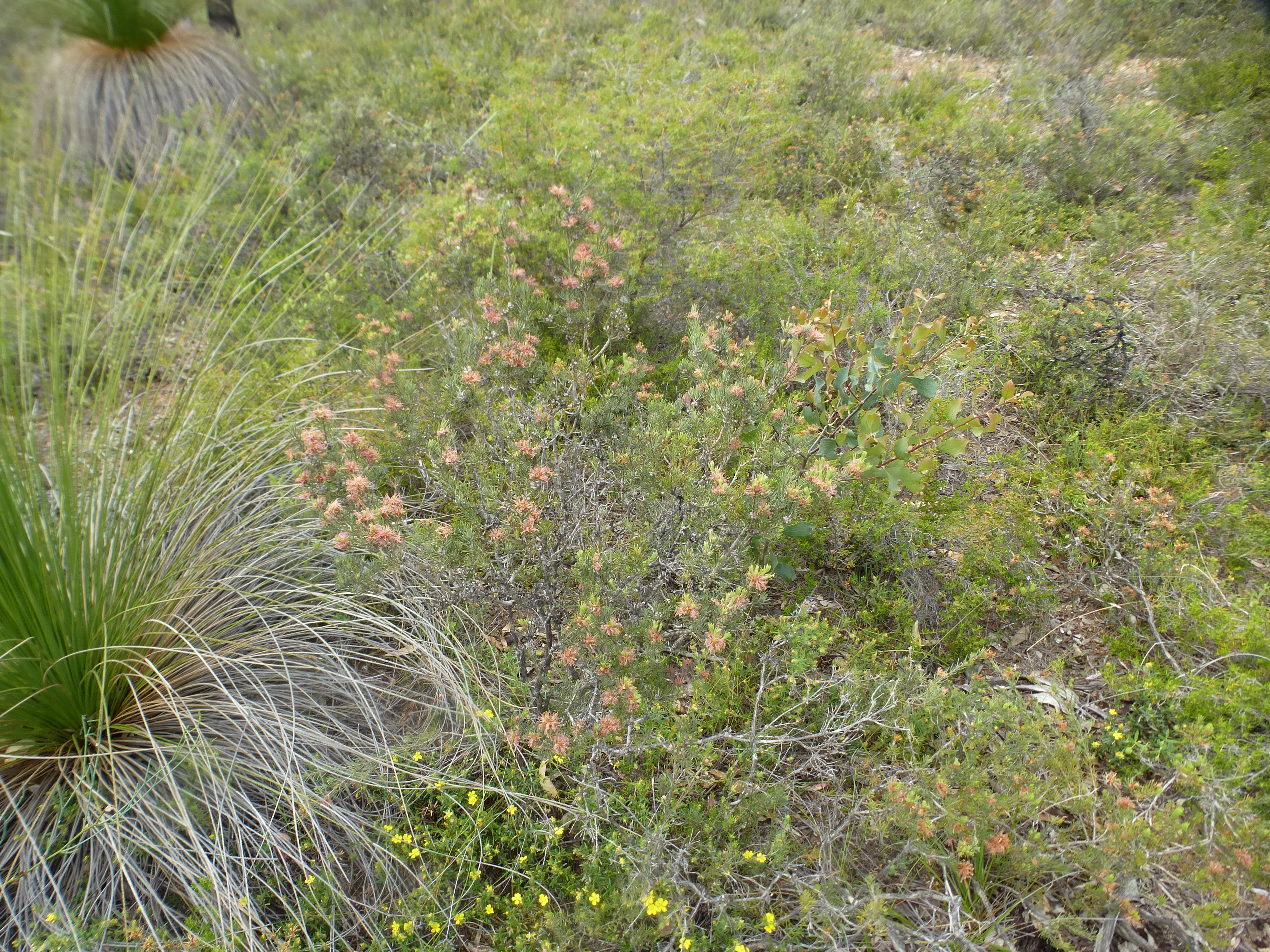 Melaleuca holosericea near West Toodyay Road, Julimar